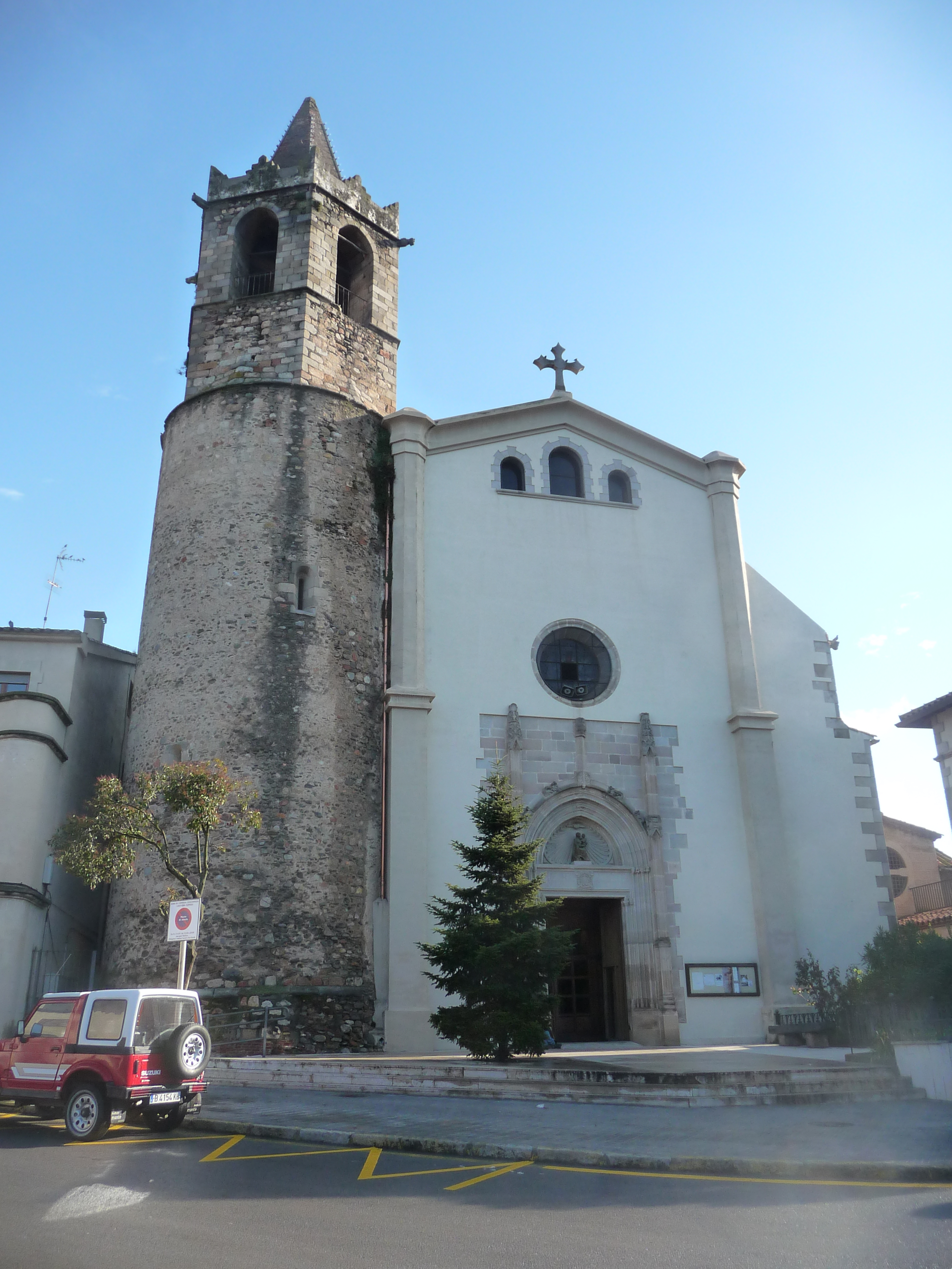 Church of Santa Maria de Palautordera (Barcelona)